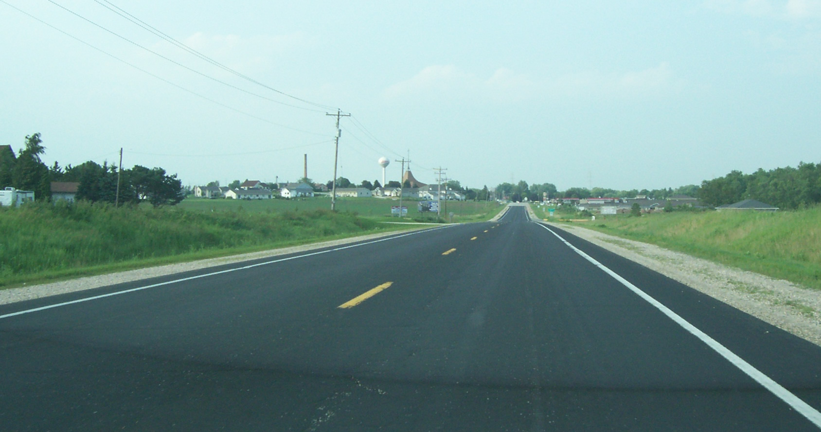 overview of Valders, Wisconsin, USA, taken July 1 2006 by myself. Taken eastbound on USH 151. Was cropped